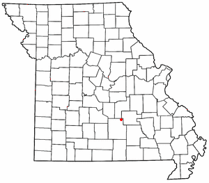 Modified from a map on Wikipedia.